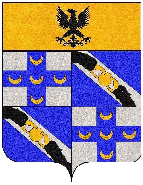 Coa fam ITA Bandini Piccolomini Siena